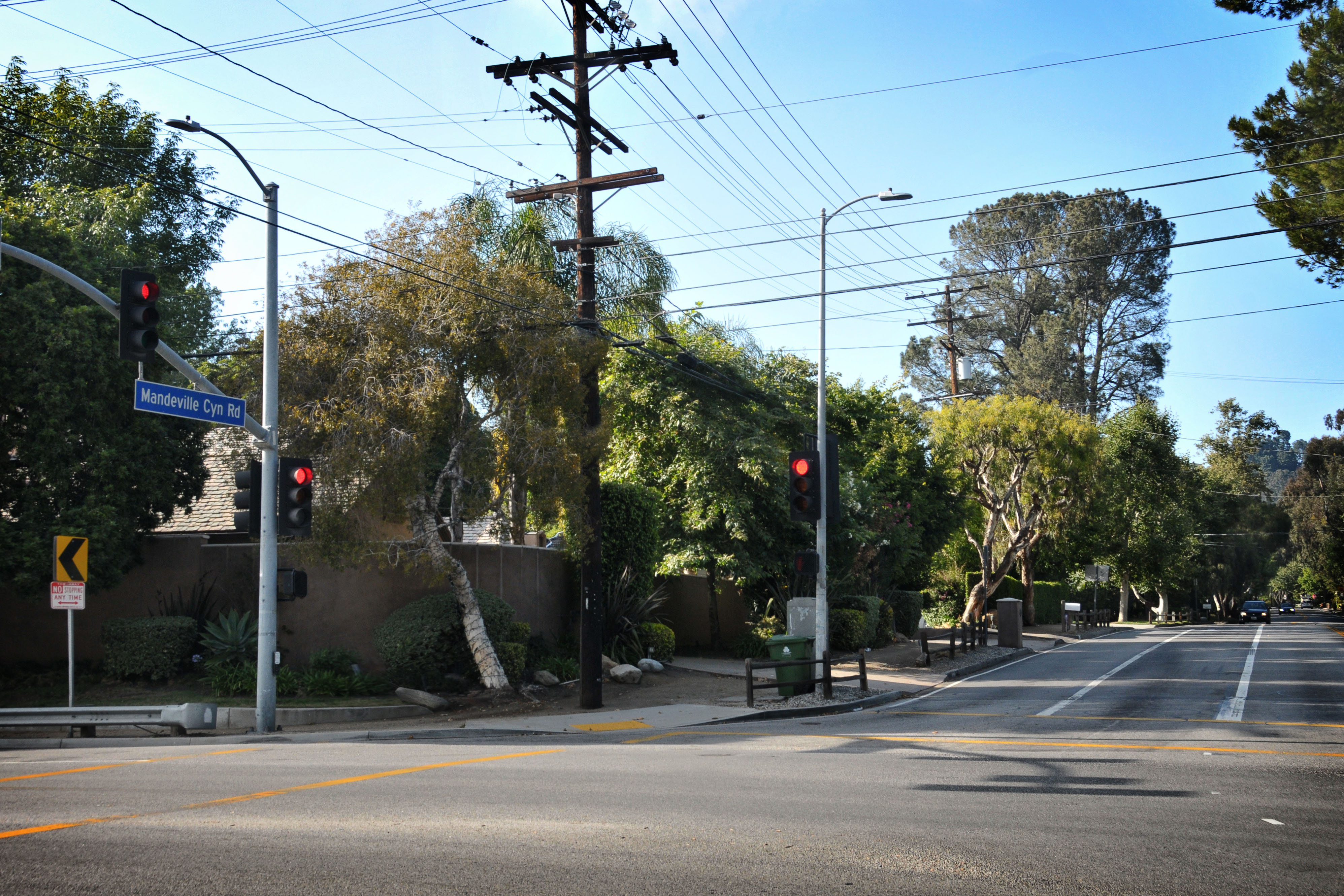 Mandeville Canyon Road Looking North from Sunset Blvd. on May 31, 2015 - Photo by Glenn Francis of